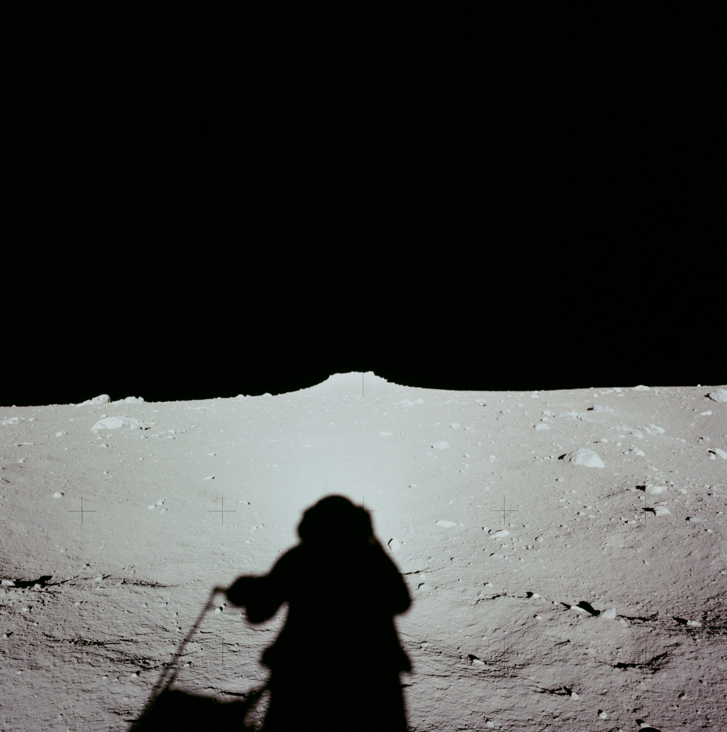 Conrad's shadow during the traverse to the ALSEP deployment site.